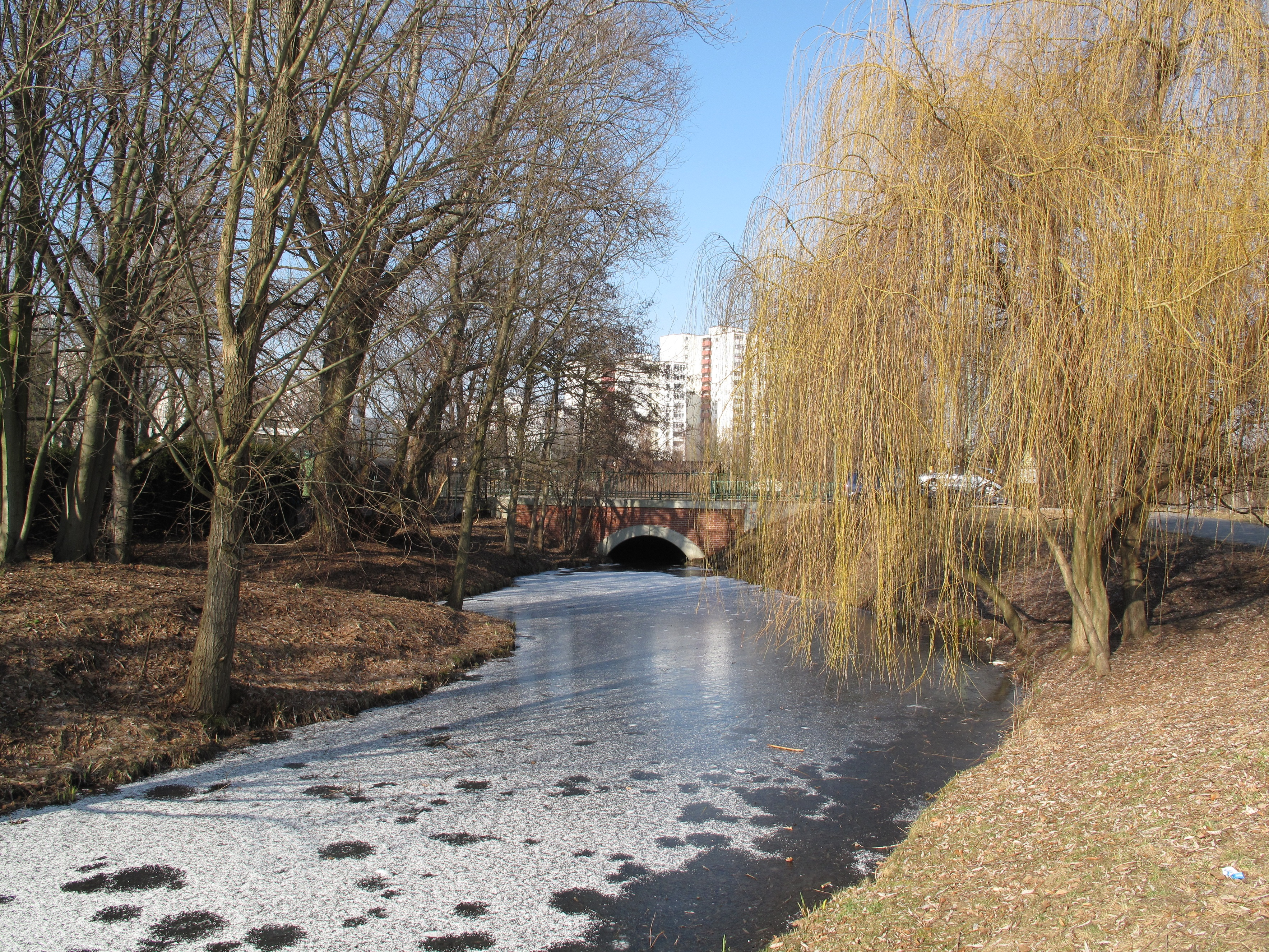 Dammwegbrücke over the Heidekampgraben, new built in 1998. The Heidekampgraben is a drainage channel in the localities Neukölln in the borough Berlin-Neukölln and Baumschulenweg, Plänterwald und Alt-Treptow in the borough Treptow-Köpenick. The channel connects the Britzer Verbindungskanal with the river Spree. During the years of the German separation a part of the Heidekampgraben marked the inner German border between West- and East-Berlin. After the fall of the Berlin Wall there was installed the green space Heidekampgraben (german: „Grünzug Heidekampgraben“) over a length of 2,5 kilometres.